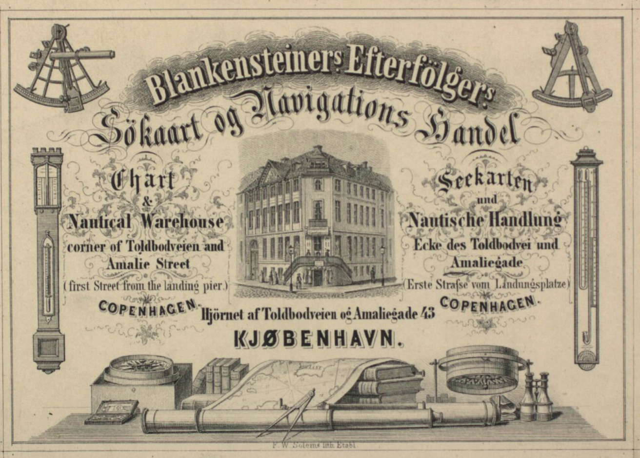 Visitkort for Blankensteiners efterfølgers søkort og navigationshandel